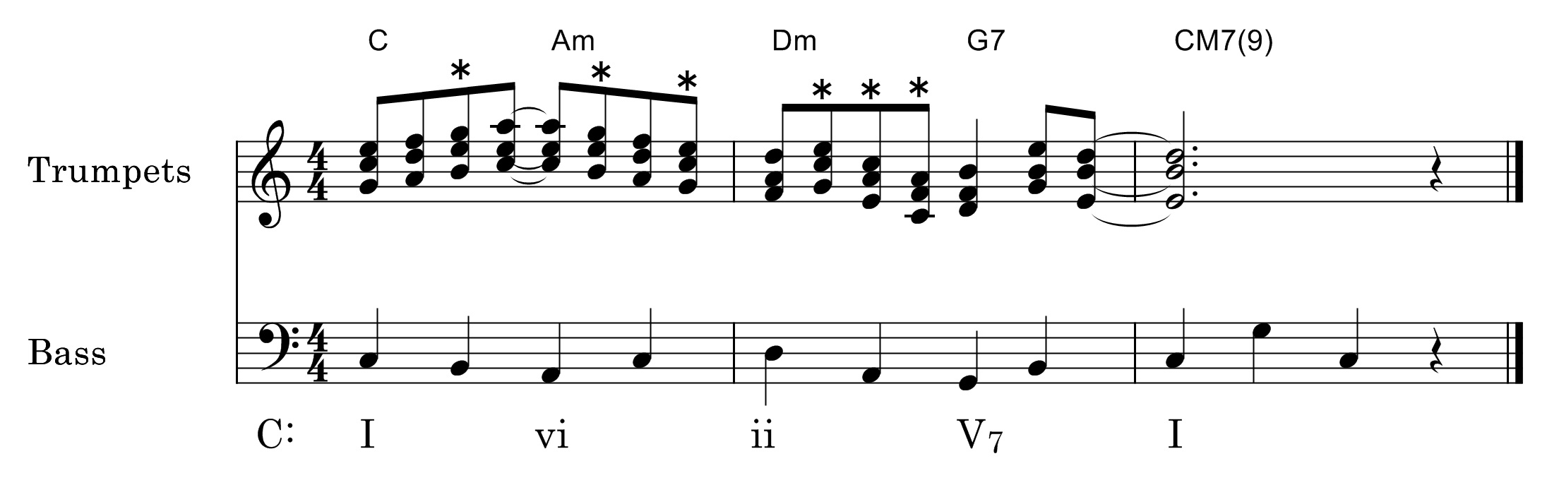 3 voice sectional harmony smoothly proceeding in parallel sixths. This is very desirable movement in three voice sectional harmony not for slower passages.